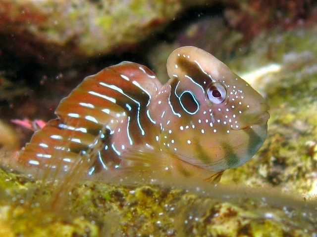 Male Salaria pavo photographed in Cres, Croatia.